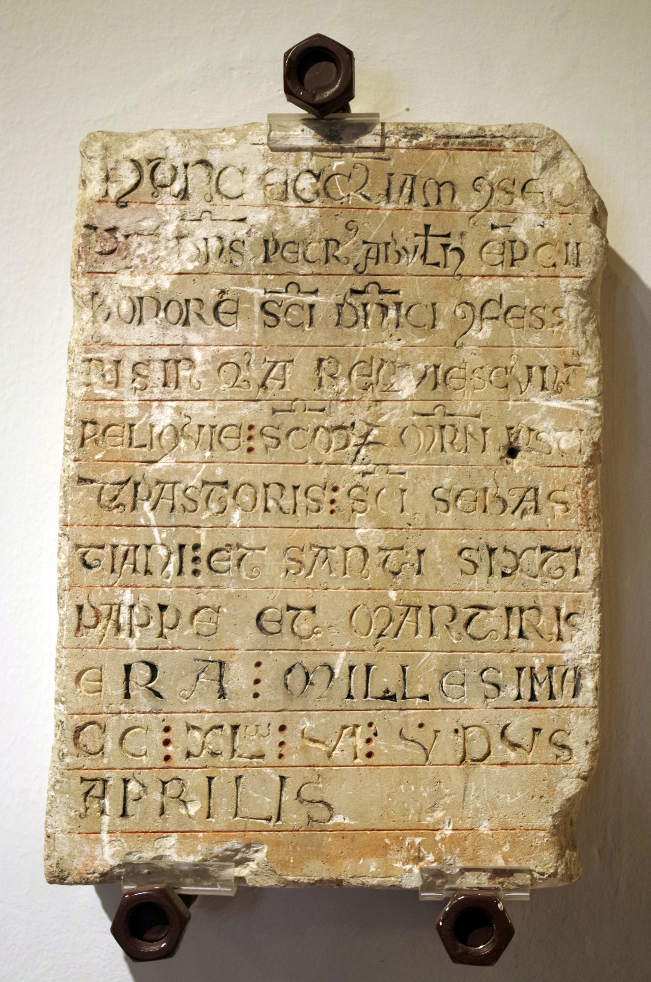 Founding inscription of the church of Santo Domingo, Ávila. Ávila Museum (Casa de los Deanes building) (Ávila, Spain).